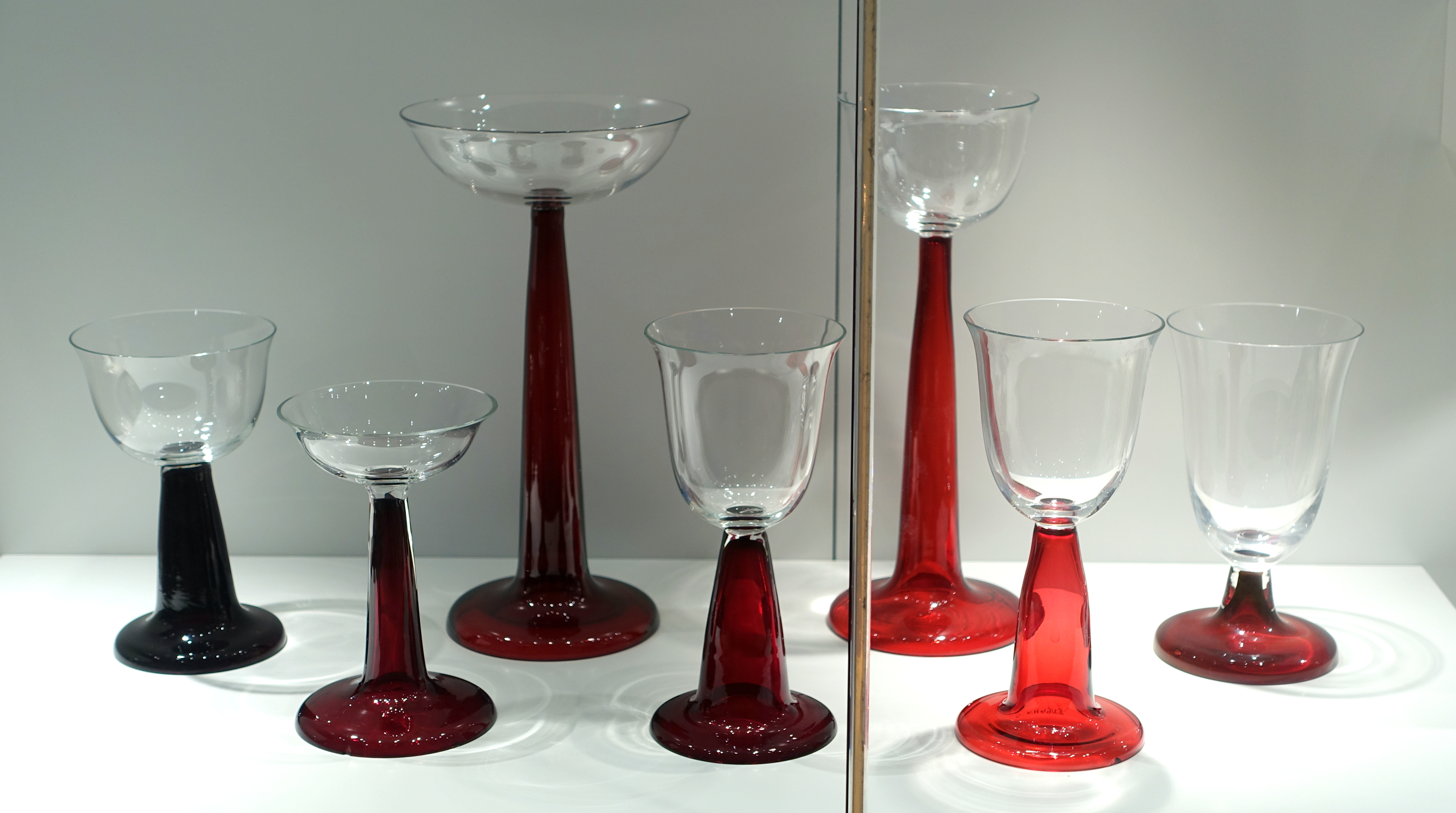 Exhibit in the Museum Künstlerkolonie Darmstadt - Mathildenhöhe - Darmstadt, Germany. As a utilitarian object, the design of this object was not eligible for copyright protection. Rather it might have been eligible for Industrial Design protection, but if so, that protection has expired; see Industrial design right for more information.